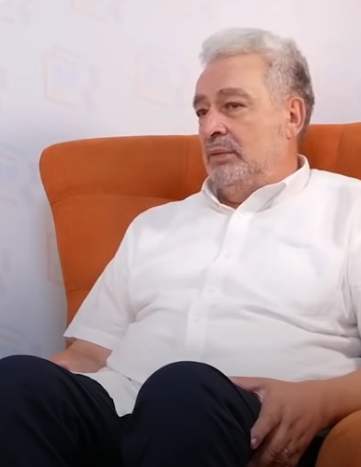 Zdravko Krivokapić, Montenegrin professor and political activist